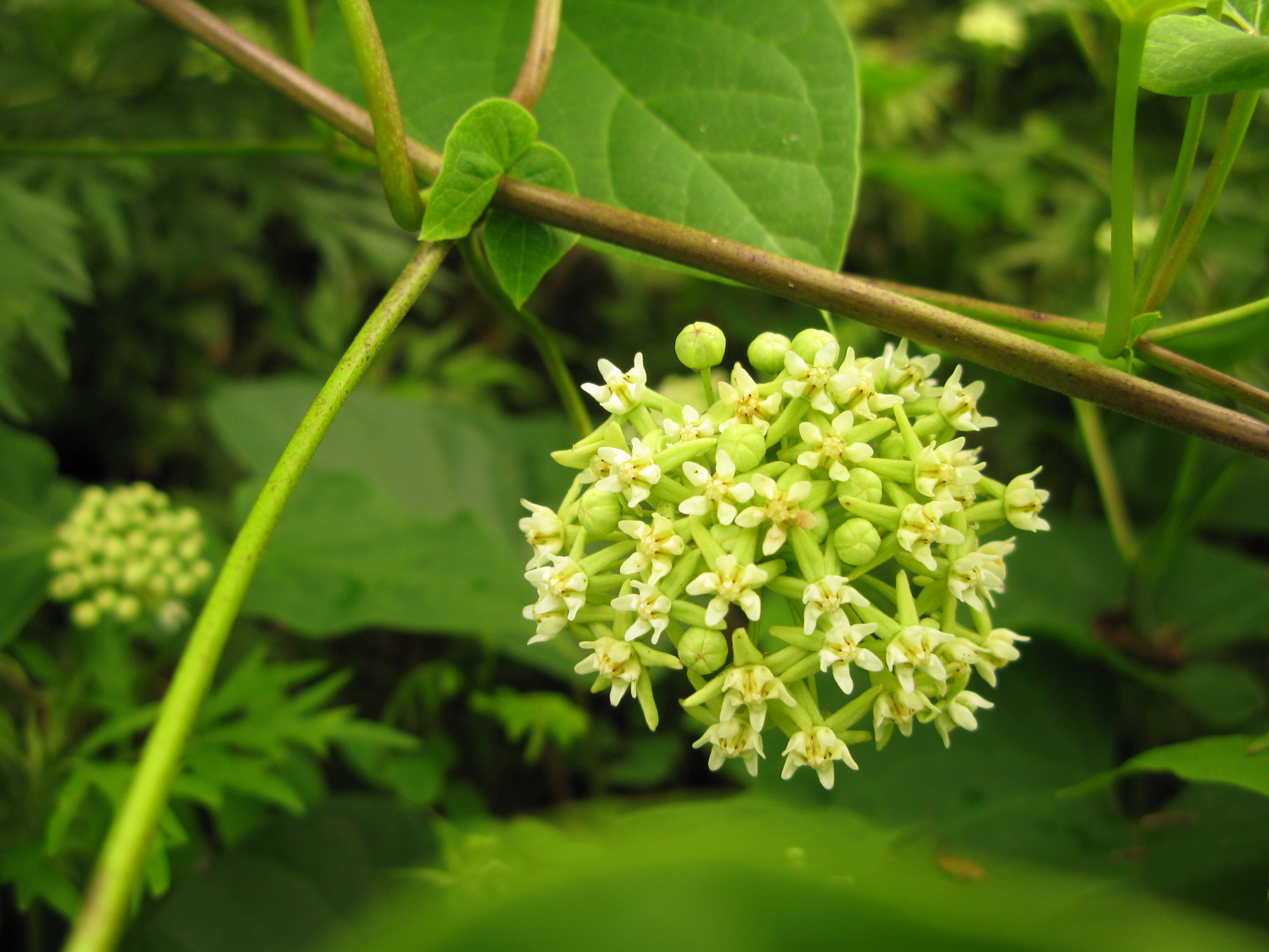 Cynanchum maximoviczii,Aizu area,Fukushima pref.,Japan